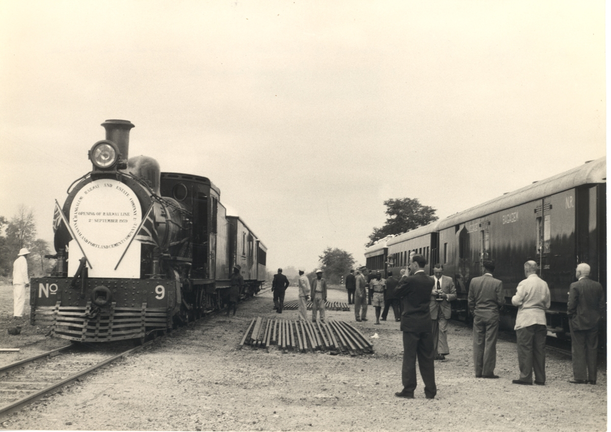 2 September, 1959. Opening of Railway Line Changalume Railway and Estate Company from Namatamu. Portland Cement Company. Sir Roy Welensky, Prime Minister of Rhodesia and Nyasaland was there and drove Engine No 9